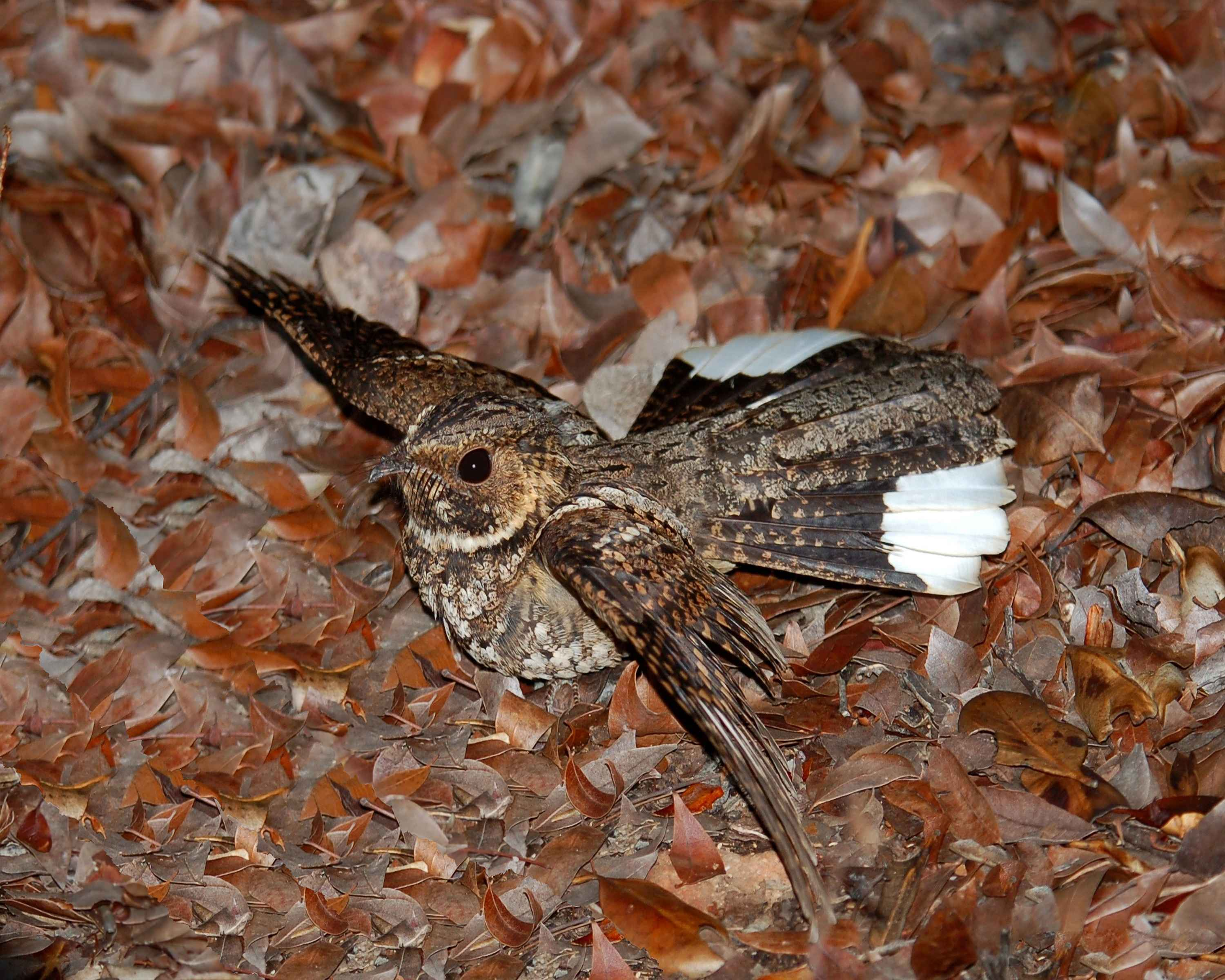 A Puerto Rican Nightjar in Puerto Rico. It is taking off.